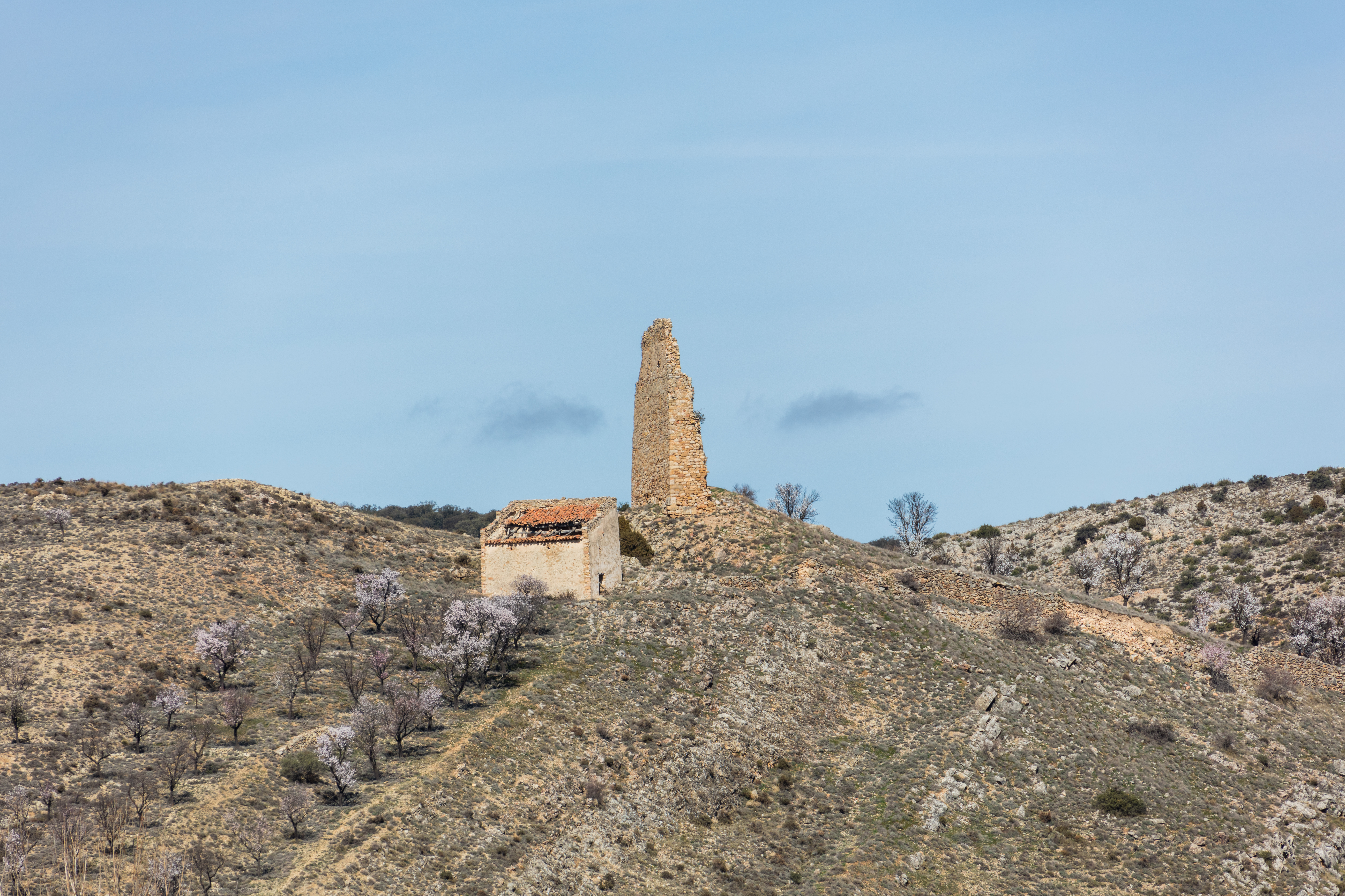 Castle of Cimballa, Zaragoza, Spain